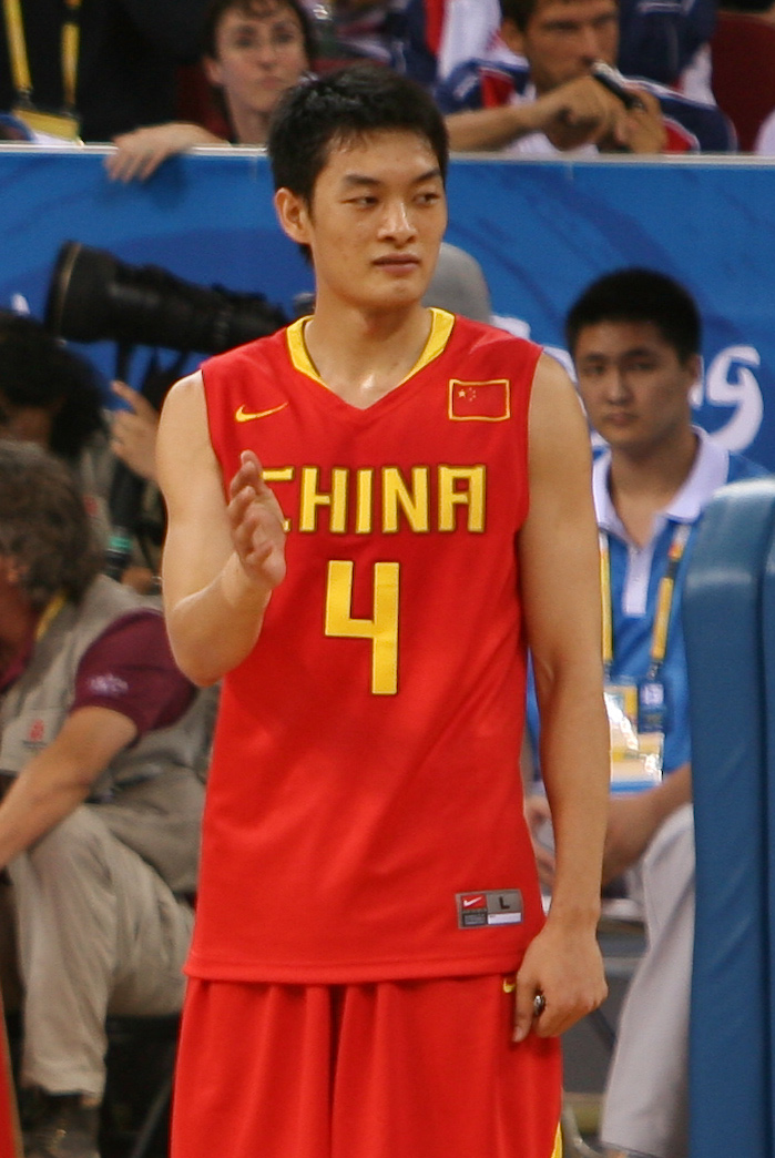 Team China - Men's Basketball - Beijing 2008 Olympics